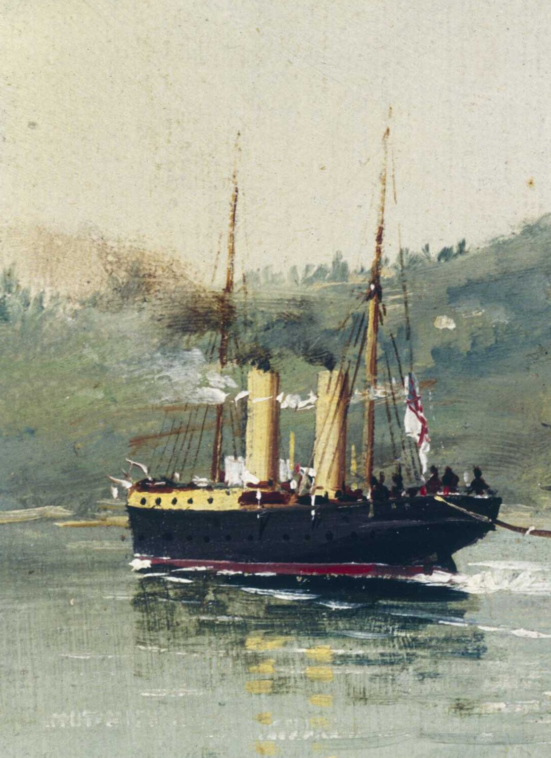 HMS Howe being towed into Emsenanda de la Malata by HMS Seahorse with salvage steamers alongside A painting recording the towing of the battleship ‘Howe’ into Ferrol in April 1893 having run aground on Ferrol Rock on 2 November 1892 during service in the Mediterranean. The crew were transferred to the ‘Royal Sovereign’ as the ship was initially thought to be beyond repair. She was finally salvaged with great difficulty, which is the process shown in the painting with HMS ‘Seahorse’ on the far left pulling the ‘Howe’. The tow rope is clearly visible as they move towards the Spanish coastline. After running aground the ‘Howe’ was salvaged in order to be repaired. Water can be seen pouring out of the ship as the careful operation gets under way and small boats hover round the ship. The painting is signed ‘A. Sanz’ and is dated 1893. HMS ‘Howe’ being towed into Emsenanda de la Malata by HMS ‘Seahorse’ with salvage steamers alongside